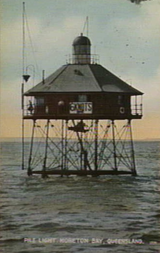 Moreton Bay Pile Light ca 1911